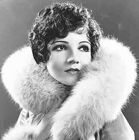 promotional photo of claudette colbert